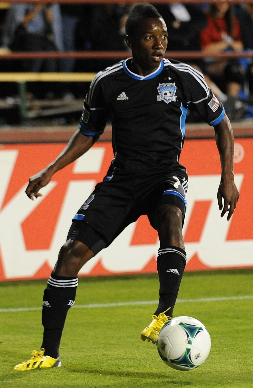 Cordell Cato. Santa Clara, CA. The San Jose Earthquakes tied the visiting Vancouver Whitecaps 1-1 at Buck Shaw Stadium.